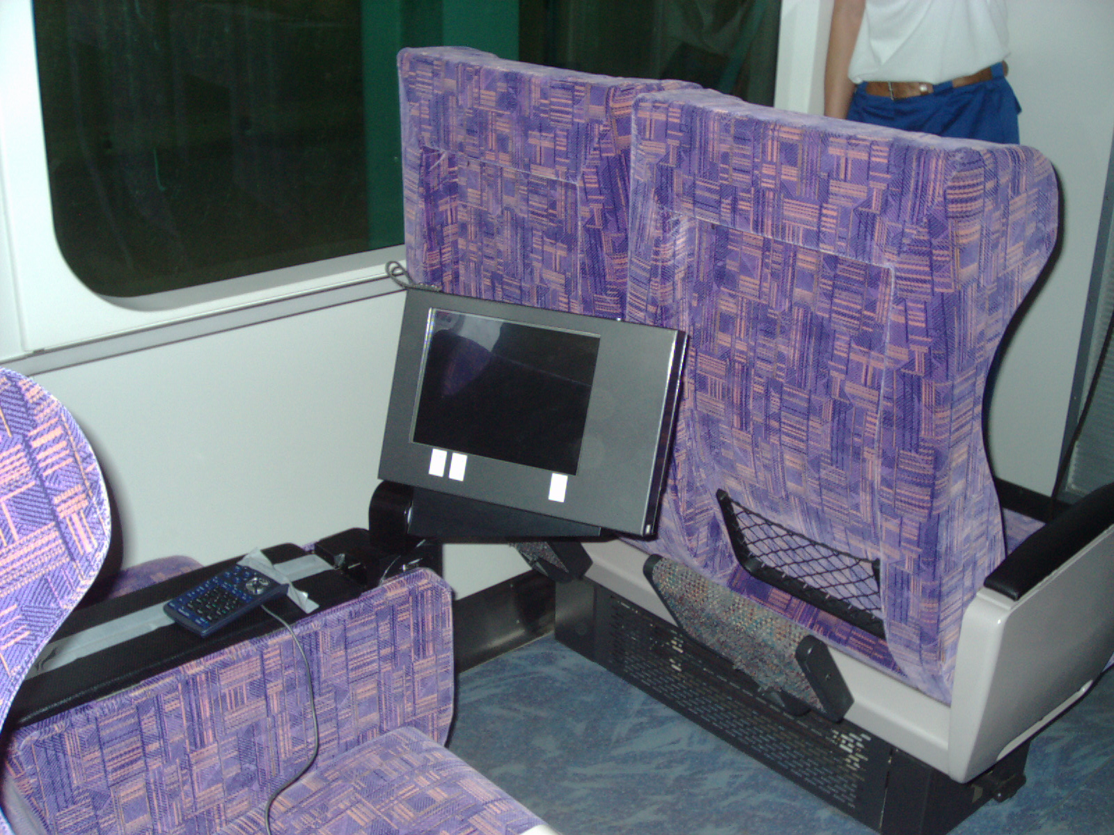 The monitor of each seat in the green car of E993 Series